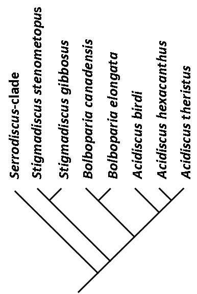 A cladogram showing the relationship between several species of the genera Acidiscus, Bolboparia and Stigmadiscus, a clade belonging to the Weymouthiidae family. This cladogram is based on Westrom, S.R. and E. Landing (2011). Lower Cambrian (Branchian) eodiscoid trilobites from the lower Brigus Formation, Avalon Peninsula, Newfoundland, Canada. Memoirs of the Association of Australasian Palaeontologists 42:209-262, and consistent with Cotton, T.J.; Fortey, R.A. (2005). Comparative morphology and relationships of the Agnostida. In: Koenemann, S. & Jenner, R. Crustacean Issues 16, Crustacea and Arthropod Relationships. Boca Raton: CRC Press.